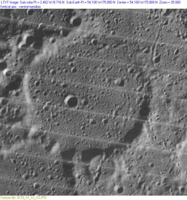 Poncelet lunar crater - Lunar Orbiter IV image LO-IV-176H